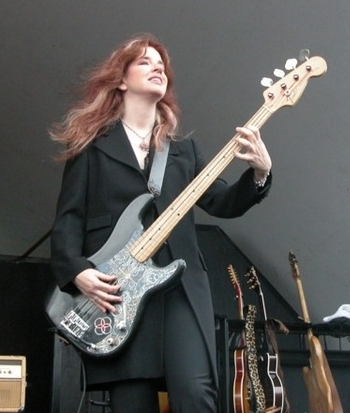 Michael Steele performing with The Bangles in 2003.